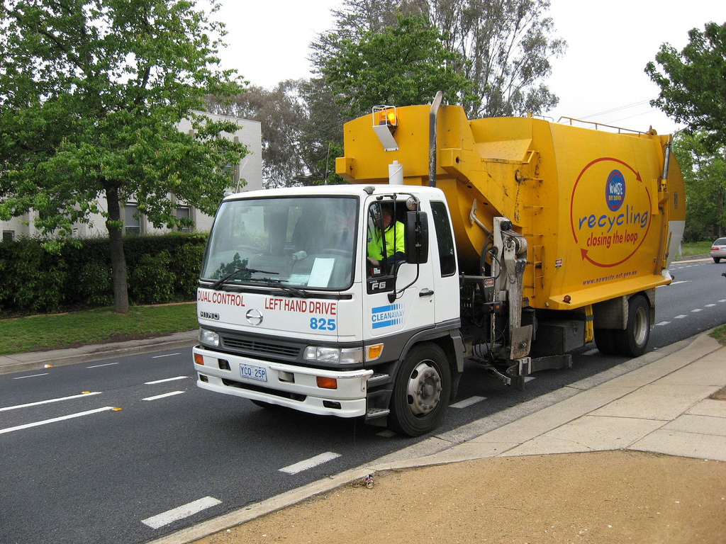 A Hino FG recycling truck in Canberra ACT